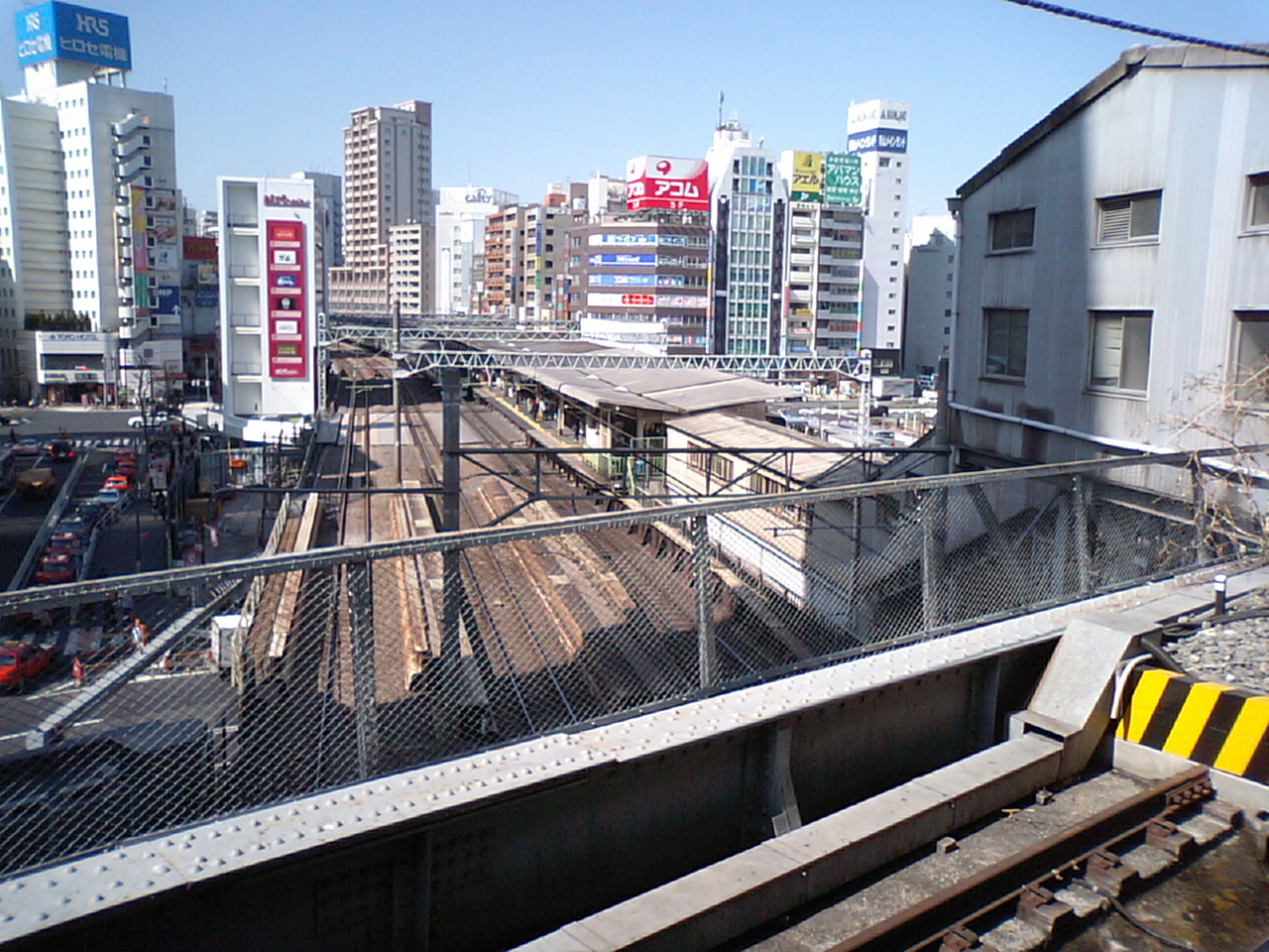 JR Gotanda Station seen from Tokyu Gotanda Station.